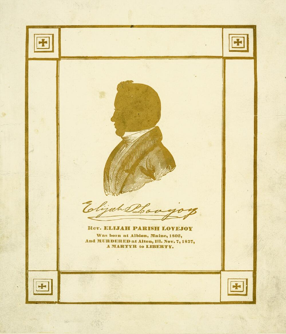 Mid 19th century memorial card for Reverend Elijah Parish Lovejoy with silhouette.